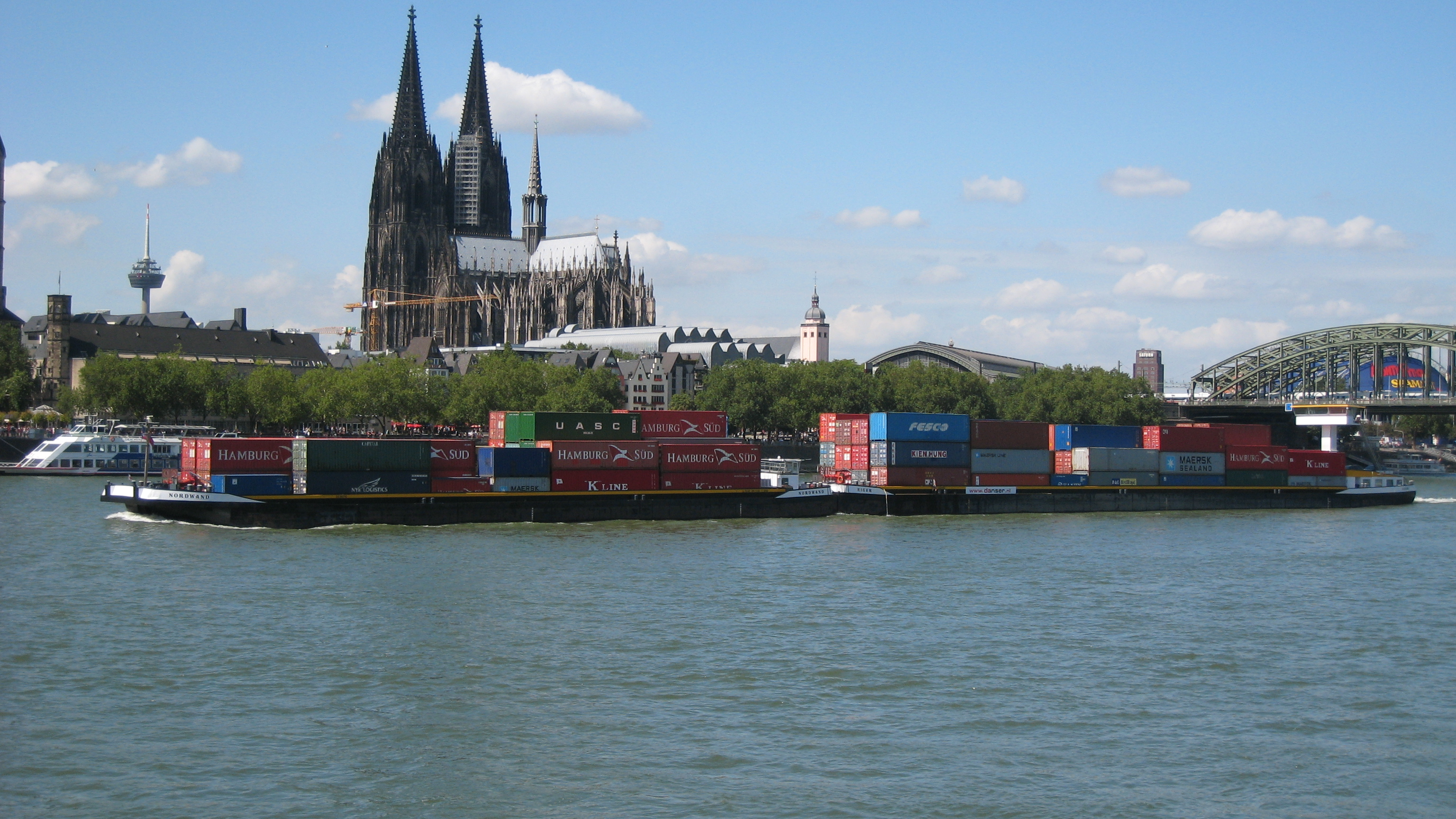 A riverboat shipping containers on the Rhine in Cologne (Germany)